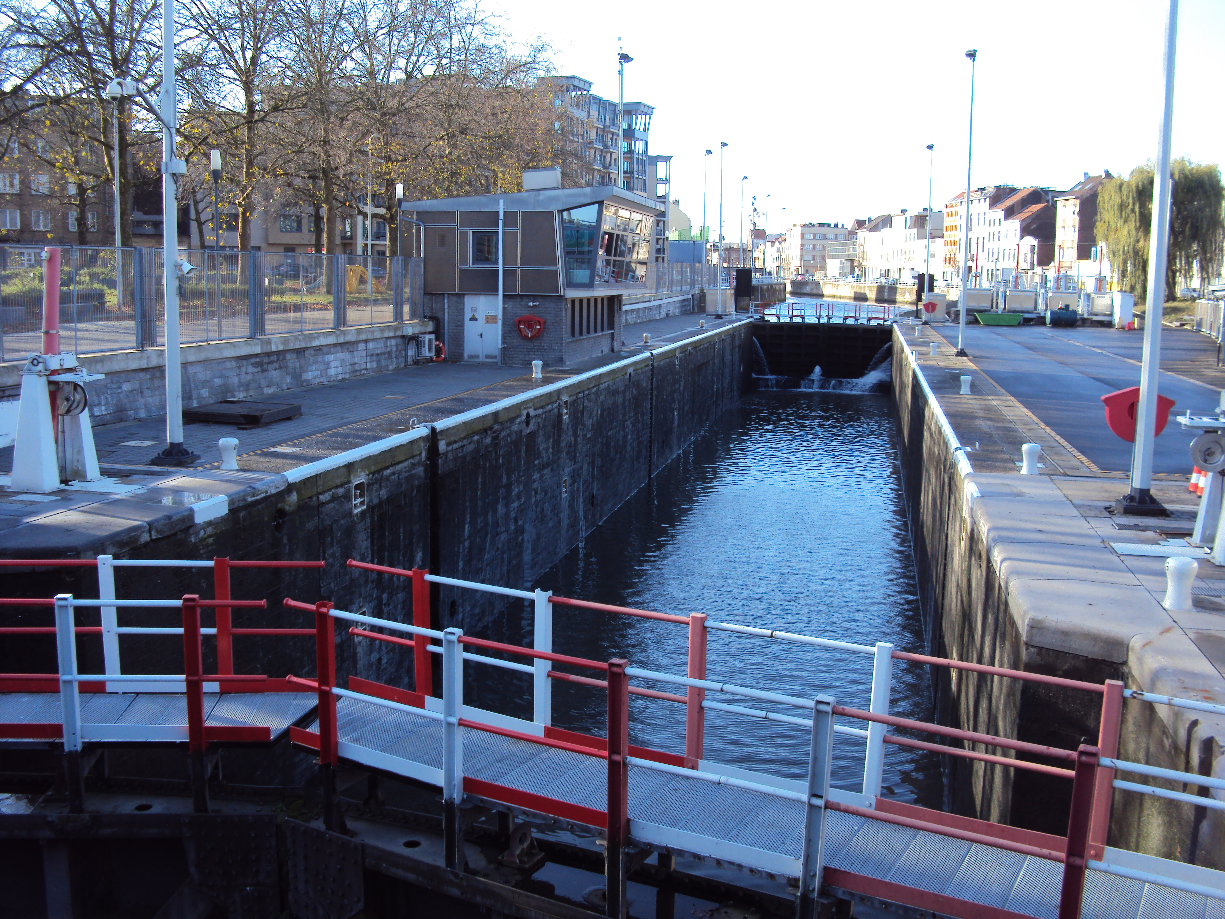 Brussels–Charleroi Canal southward seen, with the lock of Sint-Jans-Molenbeek